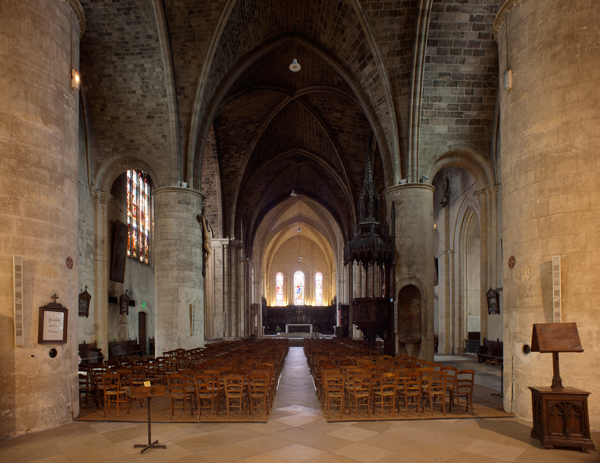 Bordeaux, Aquitaine, Gironde, France; ; ref PM_094260_F_Bordeaux; ; Photographer: Paul M.R. Maeyaert; © Paul M.R. Maeyaert; ; Cultural heritage; Europeana; Europe/France/Bordeaux